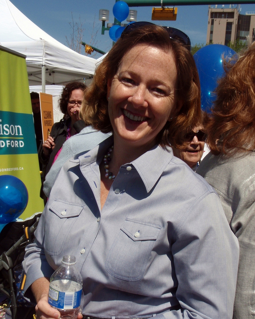 Alison Redford campaigning for the 2011 PC Alberta leadership.